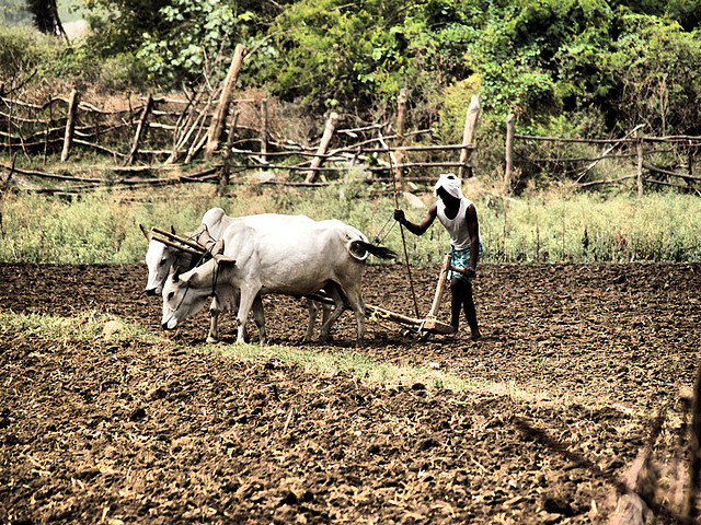 Farming near Nirmal in Adilabad district, India